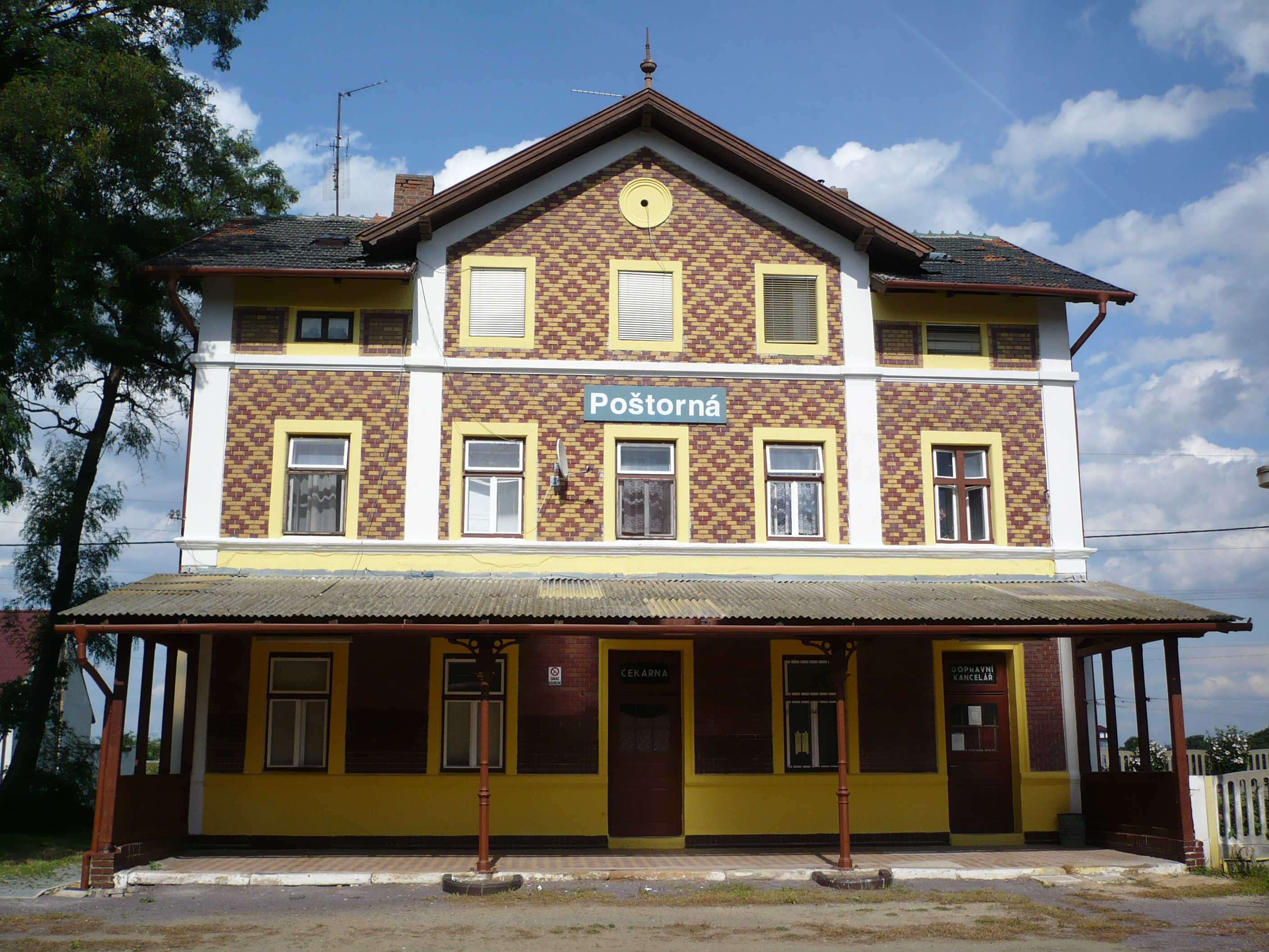 Railway station Poštorná